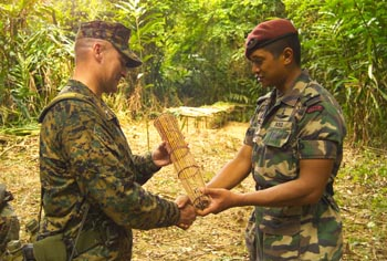 Sungai Lembing, Malaysia (July 25, 2003) -- As a gesture of friendship, a Malaysian 8th Royal Ranger Regiment officer presents a hand-made fish trap to Lt. Col. Timothy T. Armstrong, commanding officer, Landing Force, exercise Cooperation Afloat Readiness And Training (LF CARAT). Armstrong had just finished taking a brief tour of the jungle survival training facility during the Malaysia phase of CARAT. U.S. Marine Corps photo by Cpl. John F. Silwanus (Released).